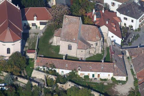 Rust, Austria, aerialphotography